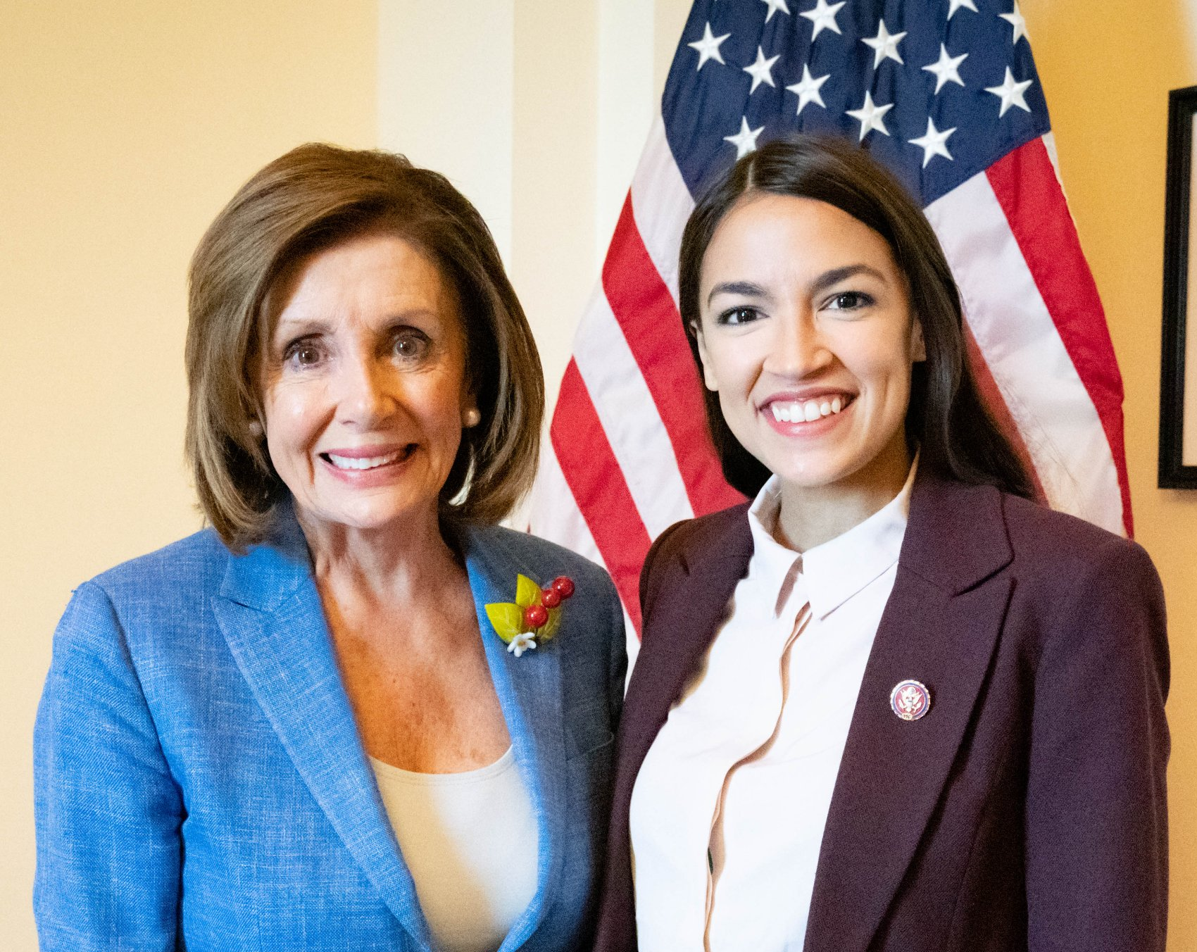 Today, Congresswoman Representative Alexandria Ocasio-Cortez and I sat down to discuss working together to meet the needs of our districts and our country, fairness in our economy and diversity in our country.